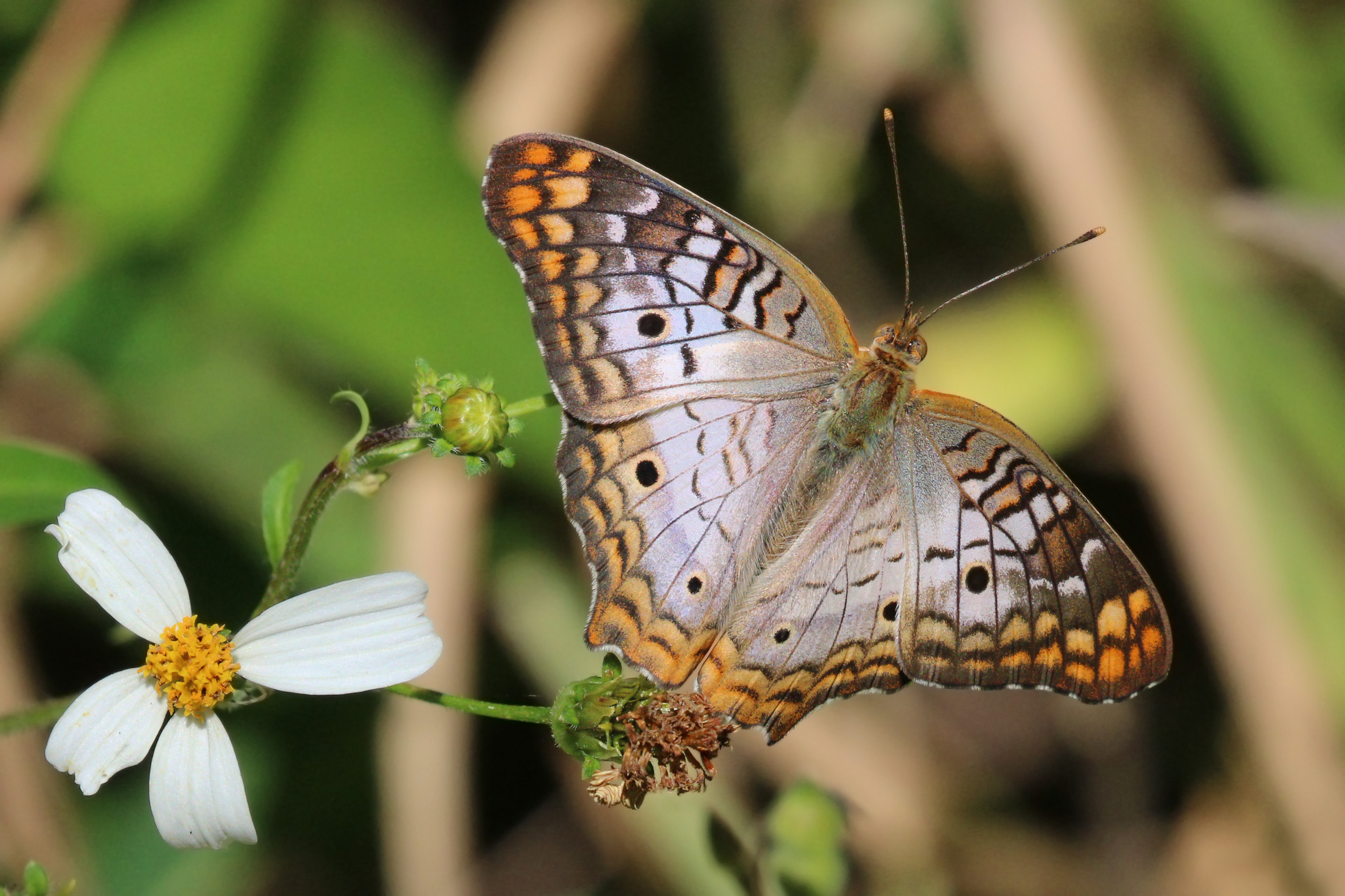 White peacock (Anartia jatrophae guantanamo), Cuba